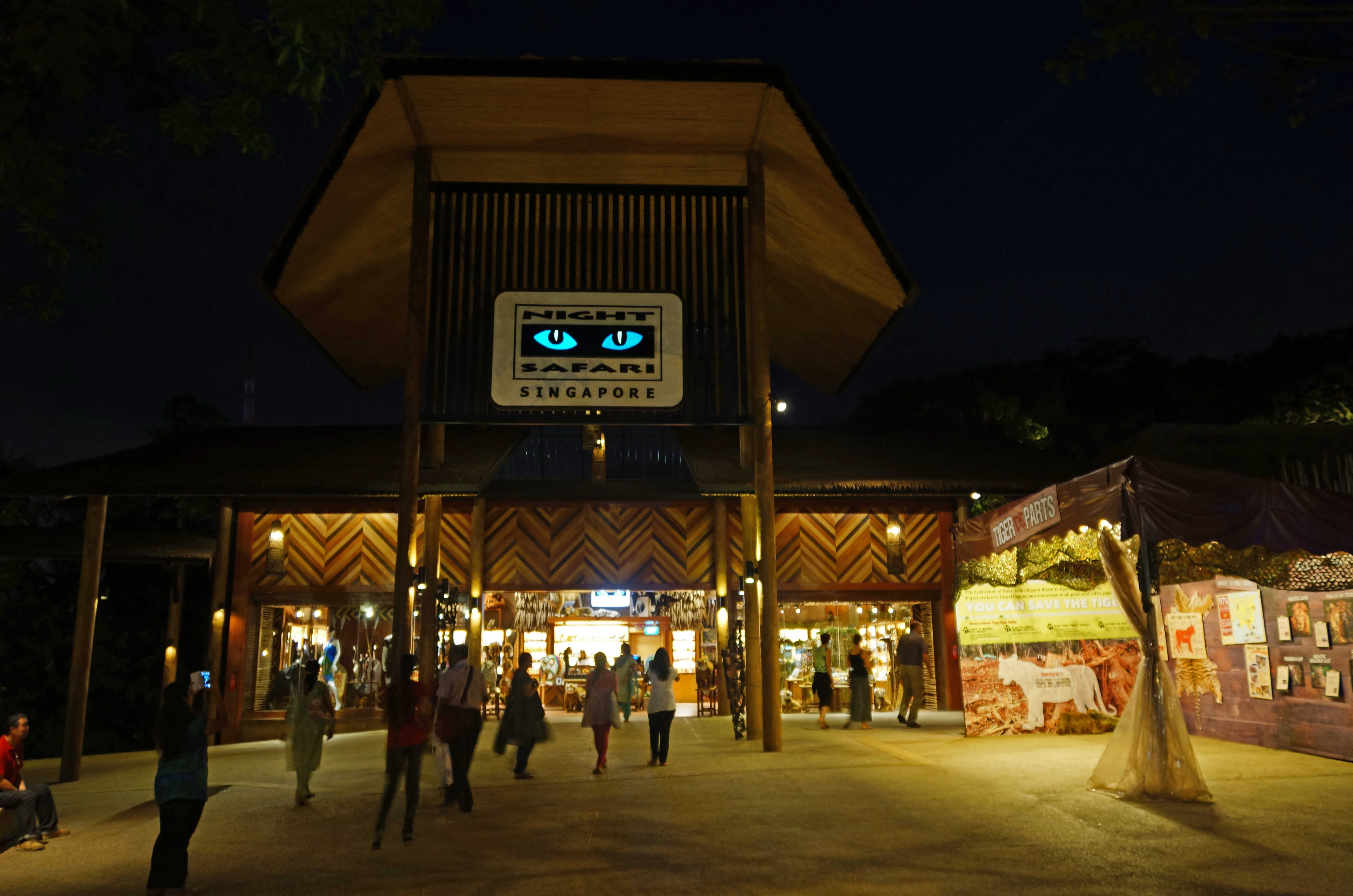 Entrance of Night Safari, Singapore in 2012.